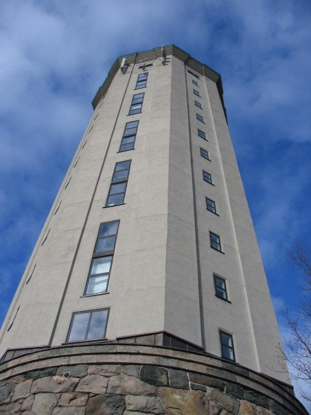 The water tower in Johanneberg, Gothenburg, Sweden. Student apartments since 1996